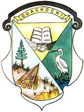 Escudo de Guachochi Chihuahua